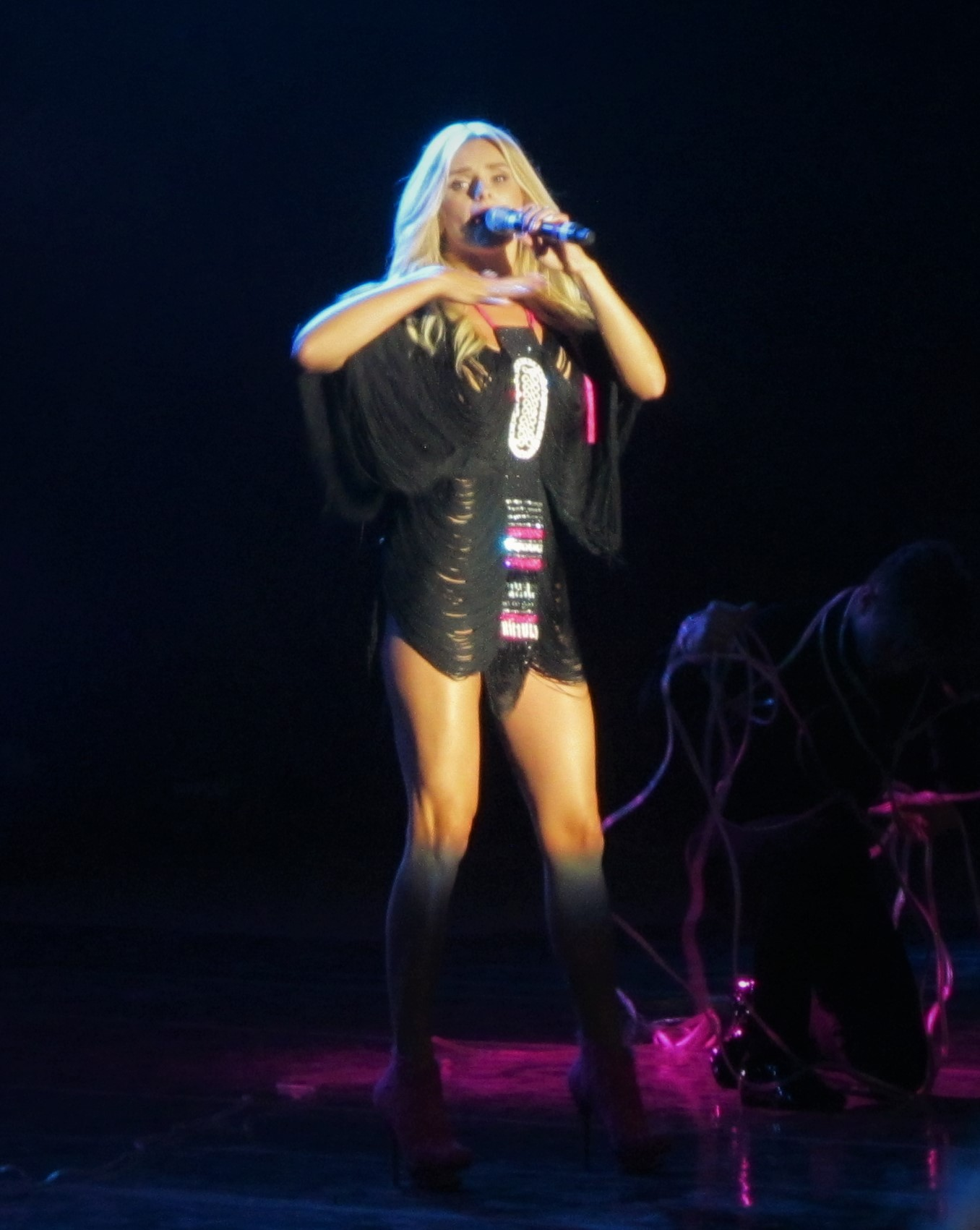 Iryna Fedyshyn at Canada's National Ukrainian Festival, Dauphin, Manitoba, August 2018.